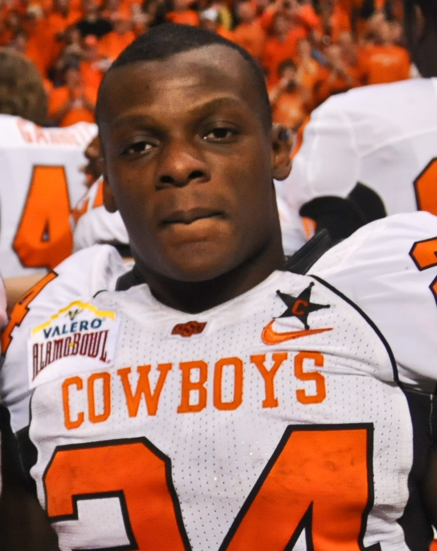 Oklahoma State running back Kendall Hunter following his team's victory in the 2010 Alamo Bowl